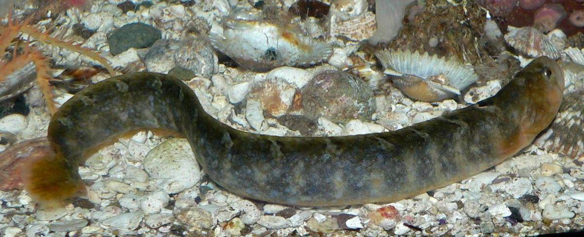 Photo of Pholis laeta at the Birch Aquarium in San Diego